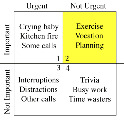 Time management matrix as described in Merrill and Covey 1994 book "First Things First," showing "quadrant two" items that are important but not urgent and so require greater attention for effective time management. This is also called an "Eisenhower decision matrix".